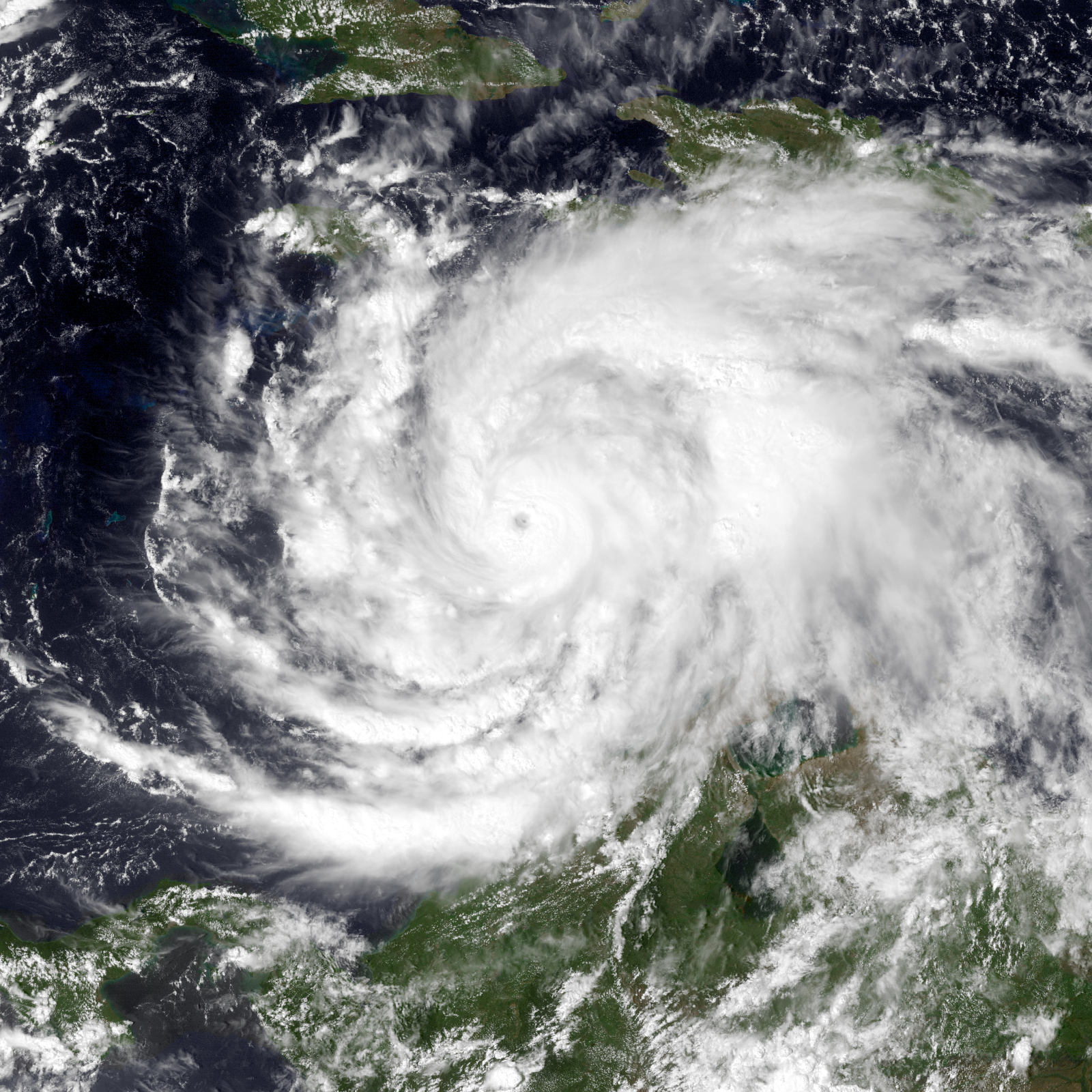 Hurricane Matthew located between Colombia and Hispaniola on October 2, 2016.